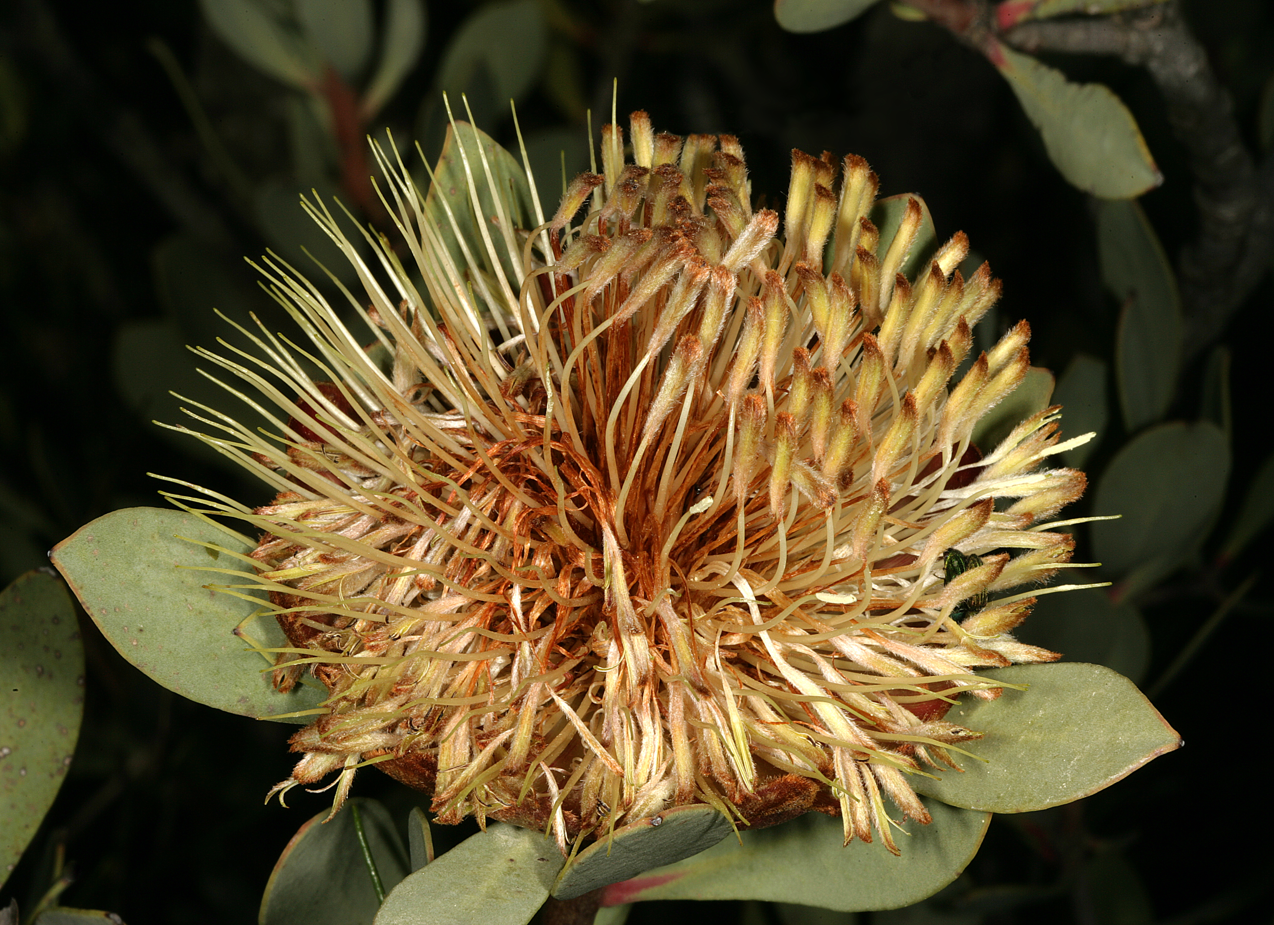 Protea glabra, flowerhead with open flowers; Farm Oorlogskloof, Nieuwoudville, Northern Cape, South Africa